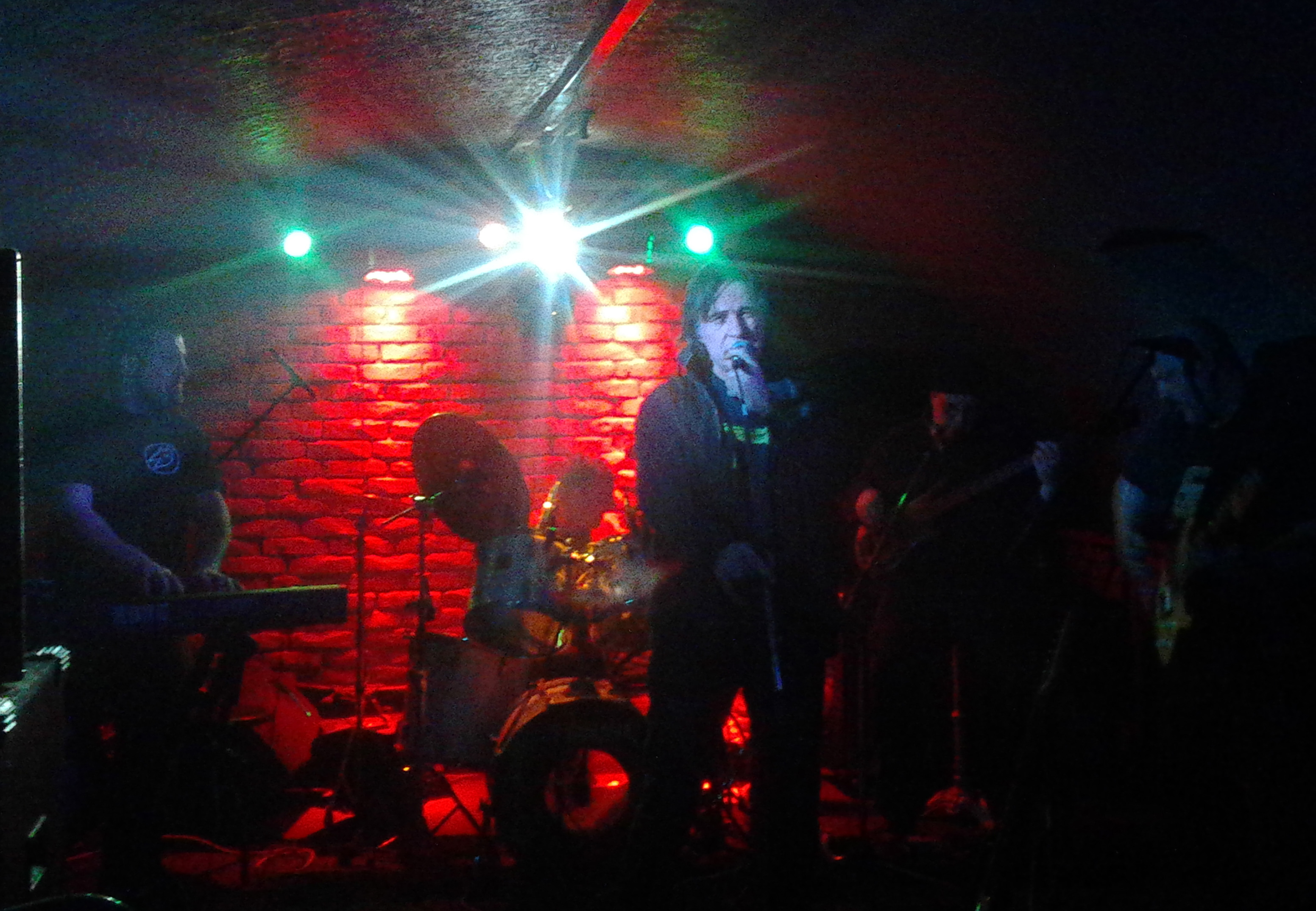 Serbian rock music band "Čovek vuk" performing in Vršac, 23 January 2016 Српски (ћирилица): Српска рок-група „Човек вук“ на наступу у Дому омладине у Вршцу, 23. јануара 2016. године